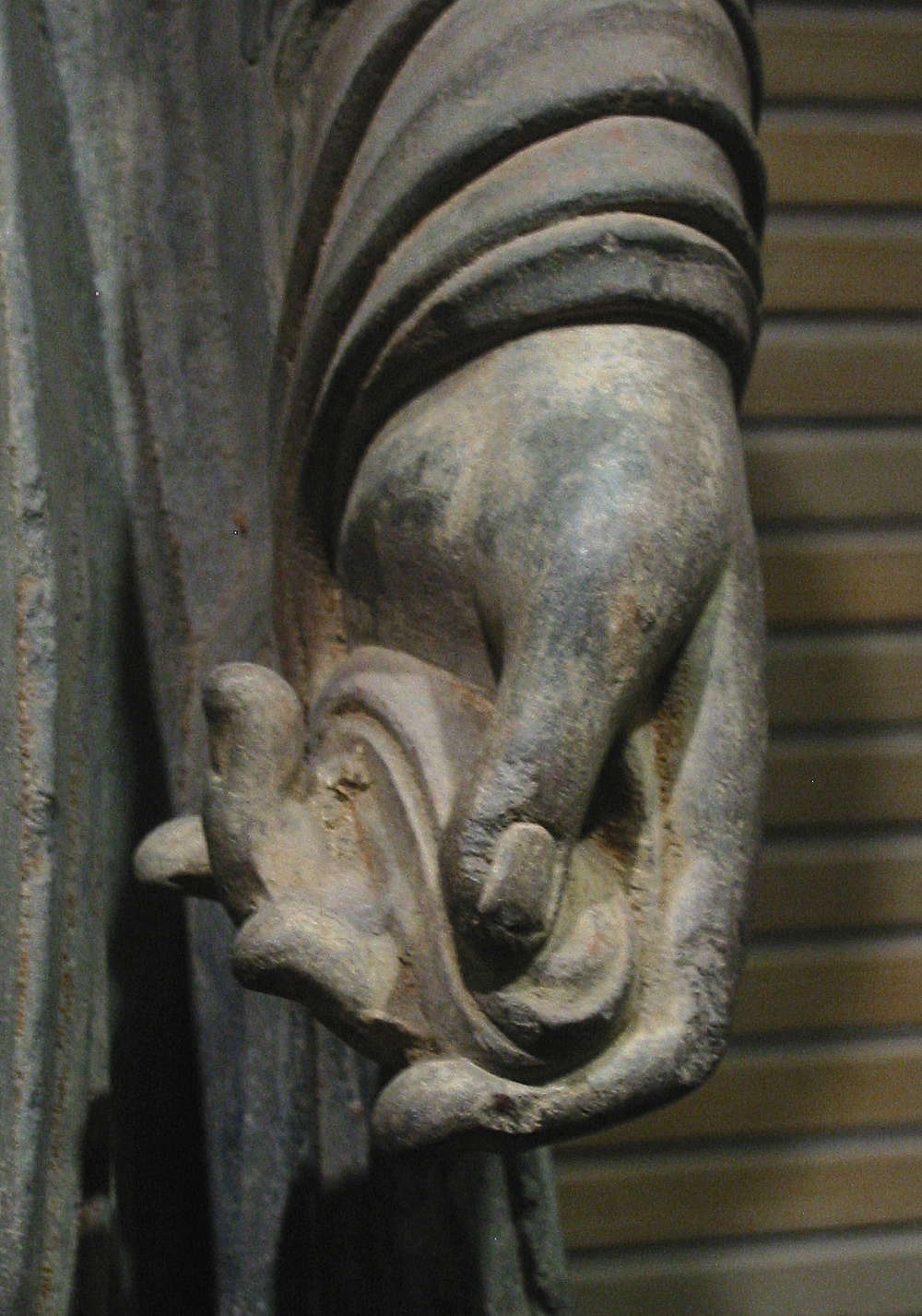 Standing Buddha. Hand detail. Tokyo National Museum.